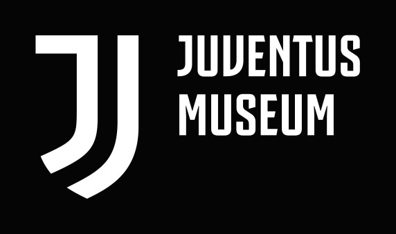 2017 logo of Juventus Museum, simply known as J-Museum, company museum of Juventus Football Club.